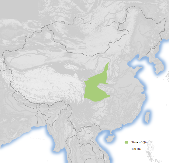 Map of Qin(State) circa 300 BCE.